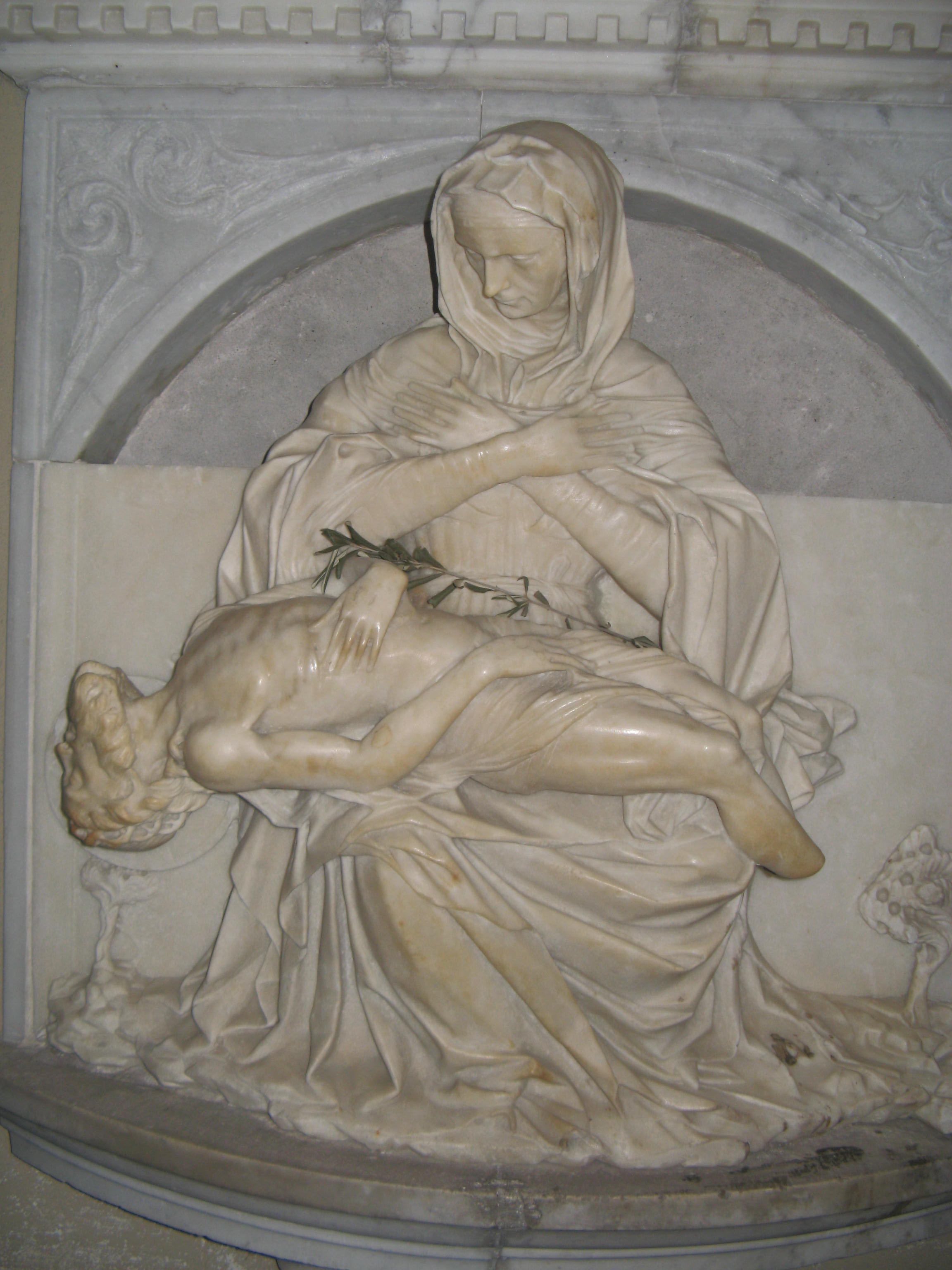 Chiesa San Domenico (Palermo)_Pieta_of_Domenico_Gagini.